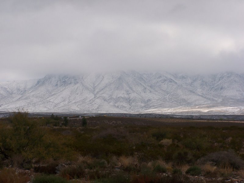 Snow on the Franklin Mountains State Park, El Paso, Texas, United States